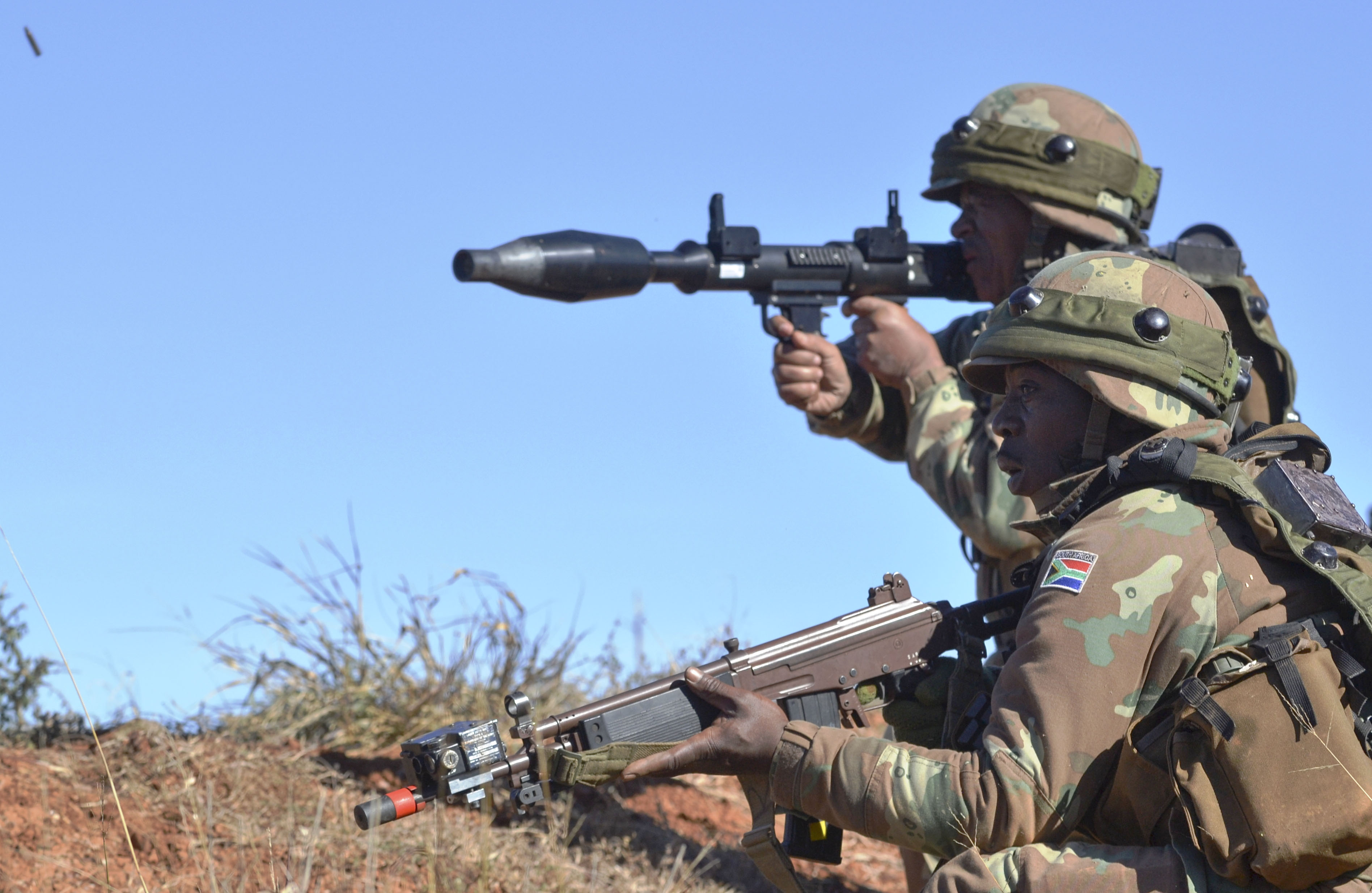 South African National Defence Force soldiers conduct a near ambush on U.S. Army and fellow SANDF personnel while acting as opposition forces, part of Shared Accord 13 July 26 near Alicedale, South Africa. Shared Accord is a biennial training exercise designed to increase capacity and enhance interoperability across the South African and U.S. militaries. (U.S. Army Africa photo by Spc. Taryn Hagerman) To learn more about U.S. Army Africa visit our official website at Official Twitter Feed: Official Vimeo video channel: Join the U.S. Army Africa conversation on Facebook